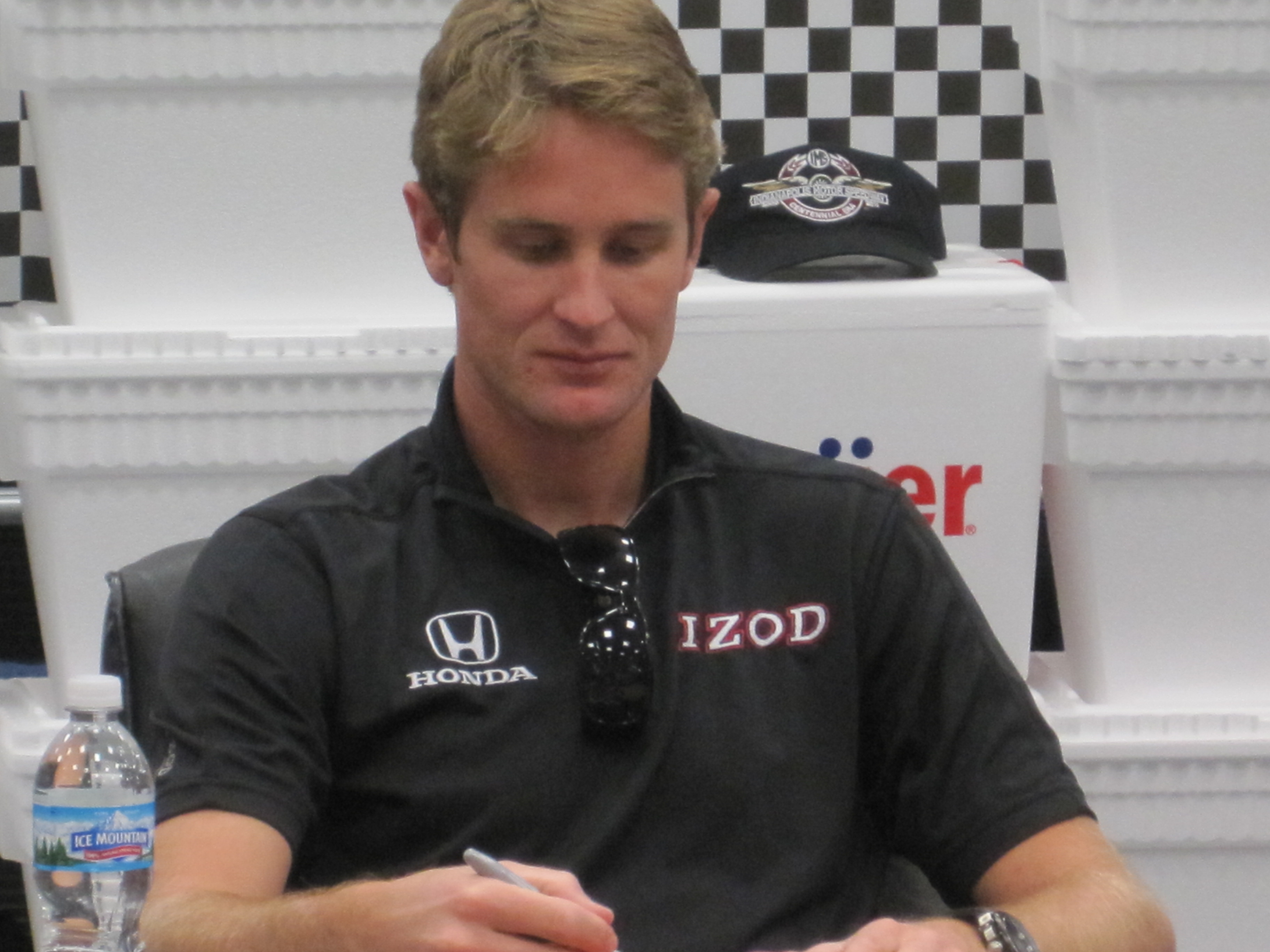 Andretti Autosport's Ryan Hunter–Reay at an Andretti Autosport team autograph session at Meijer in Carmel, Indiana on Thursday, May 27, 2010.